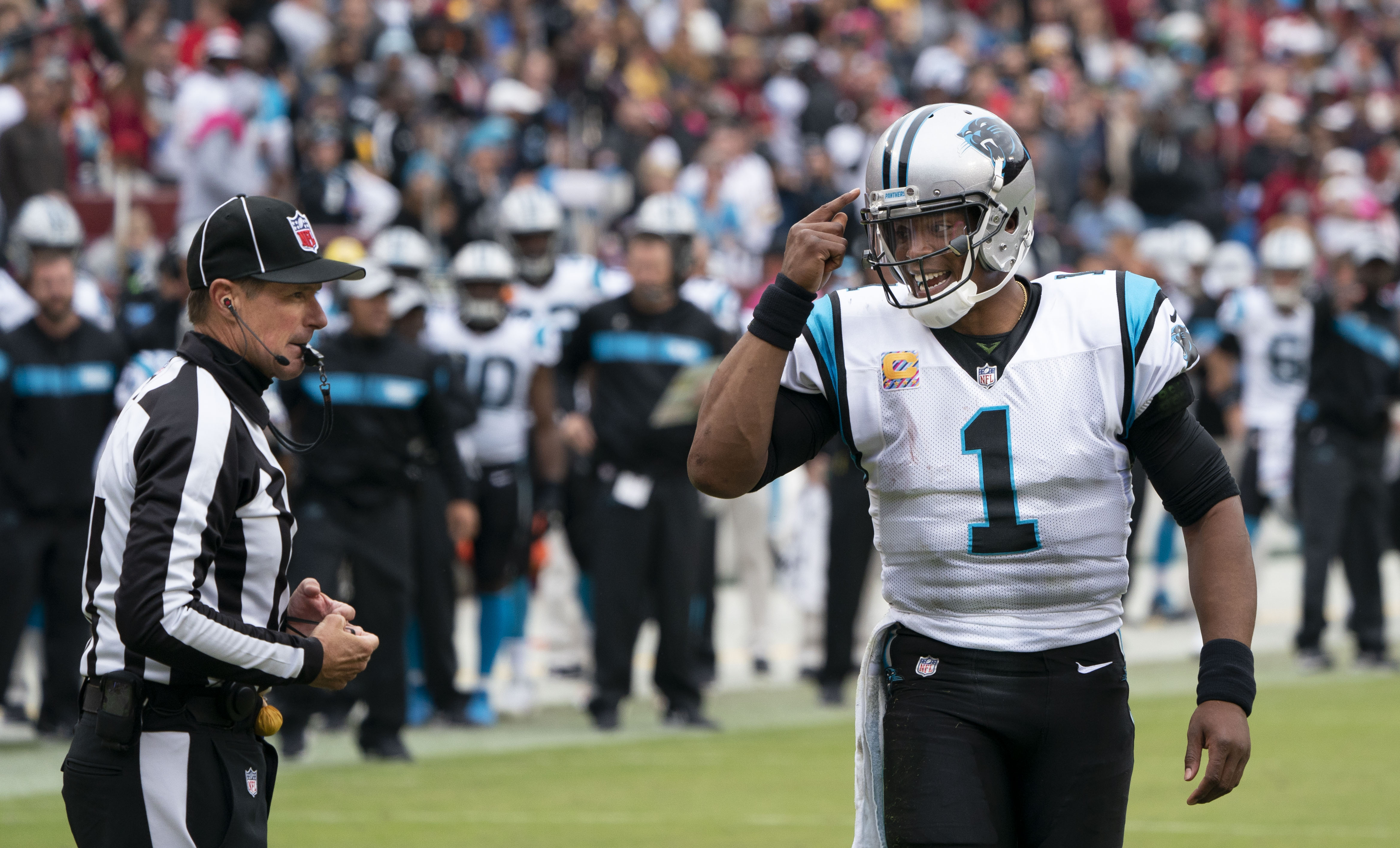 Panthers at Redskins 10/14/18